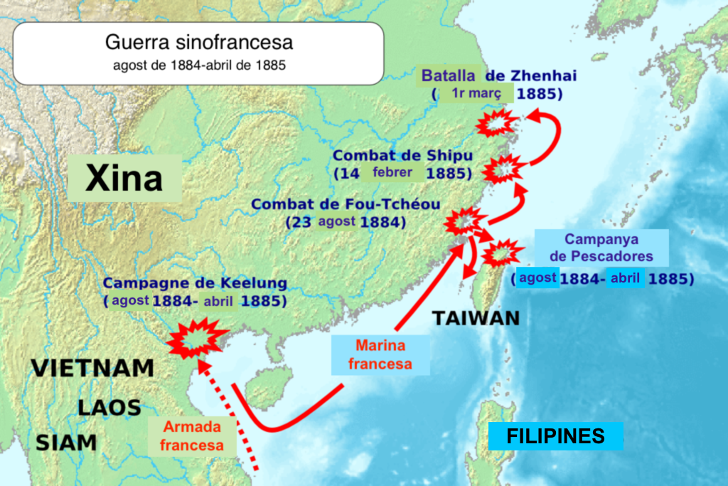 translation of names into Catalan